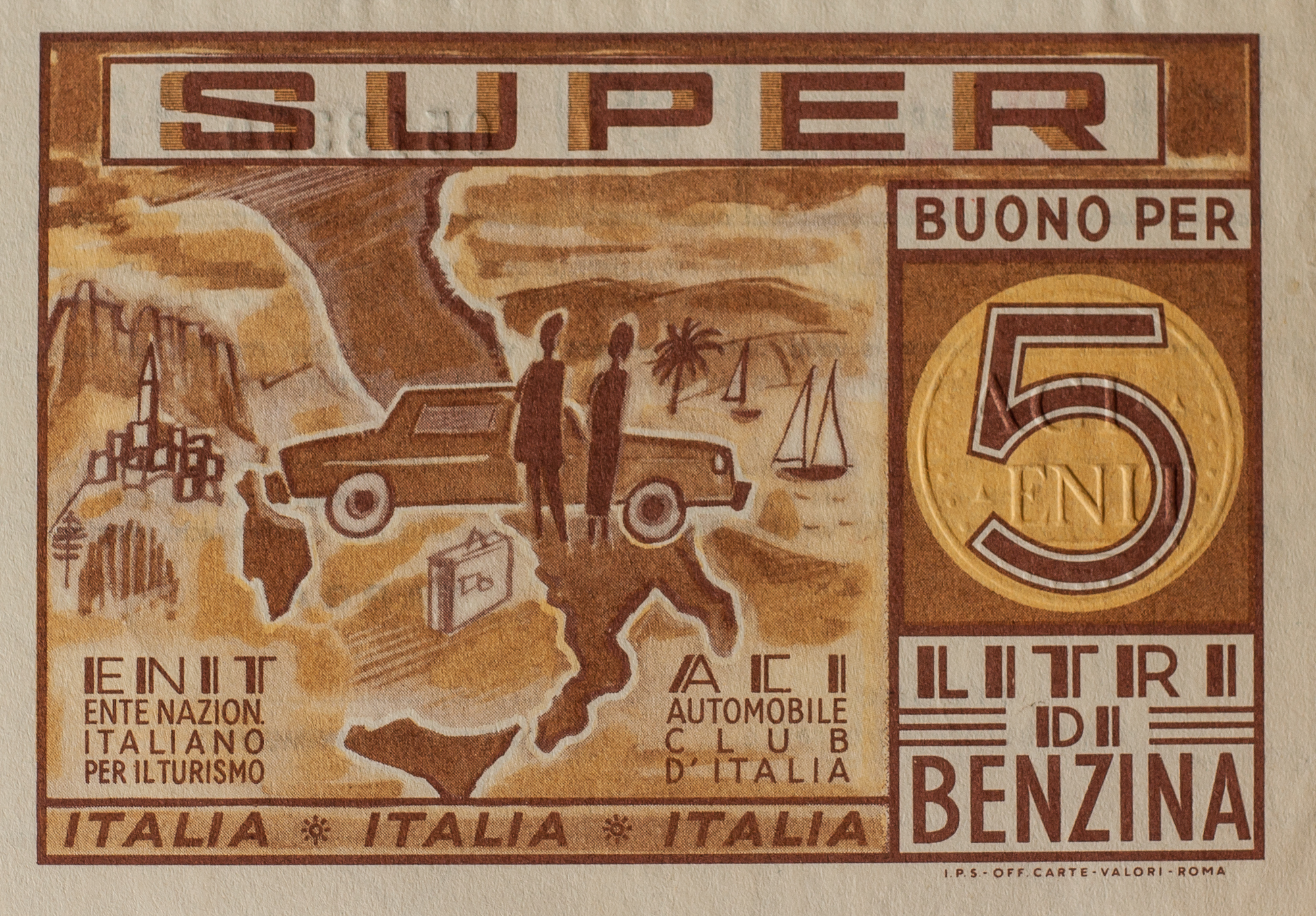 Frontside of a 5 litres Petrol Coupon of Italy